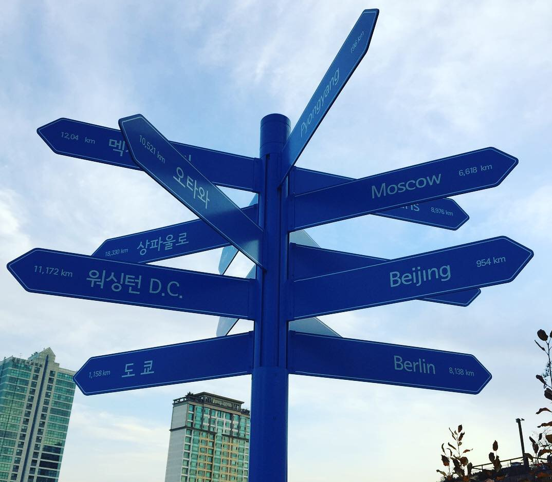 The Seoul Brothers is a signpost in the city center of Seoul.